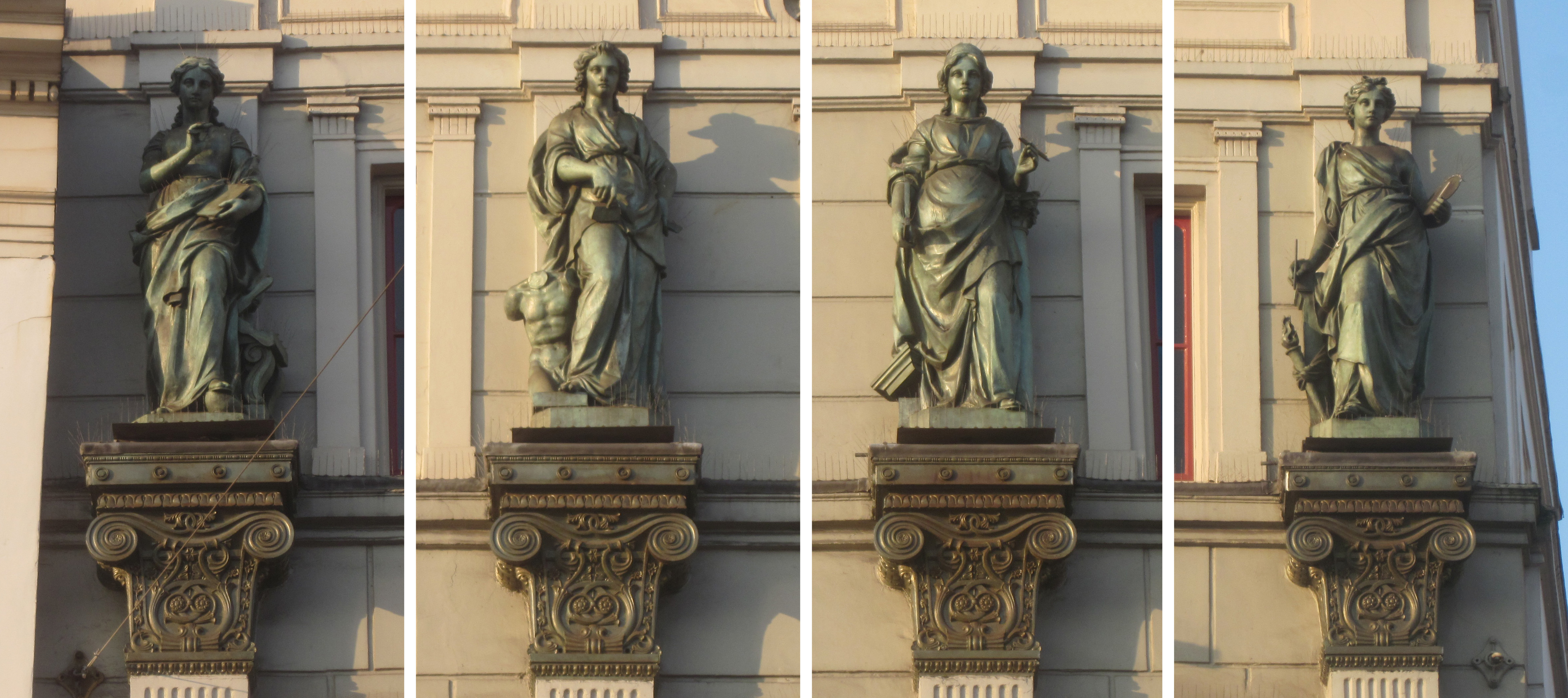 Four allegories (Architecture, Sculpture, Painting, Graphics) on the top floor of the building of "Arti et Amicitiae" at the Rokin in Amsterdam. Made by Franz Stracké in 1855 as wooden sculpture and turned into bronze sculptures in 1989.